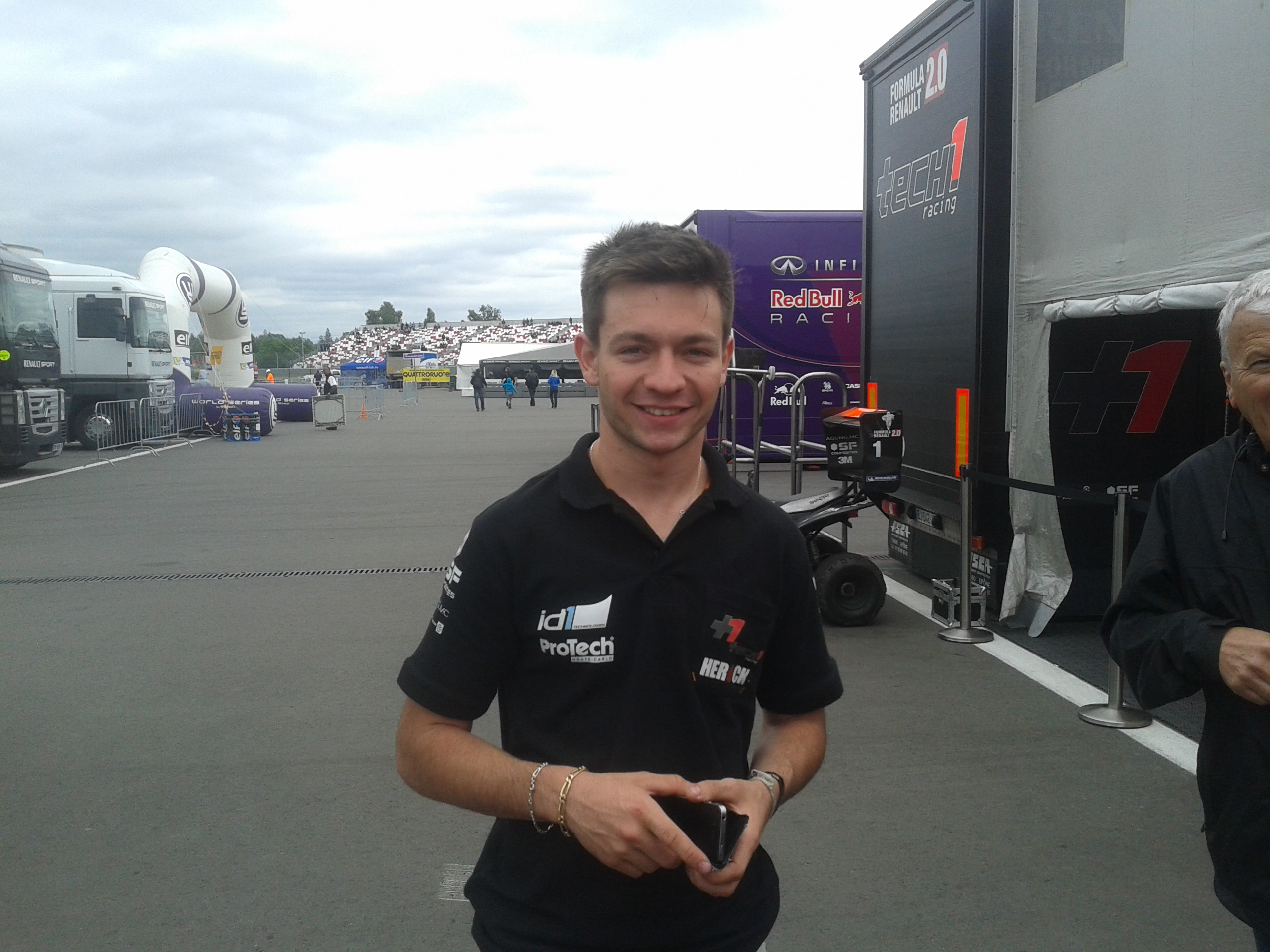 Matthieu Vaxivière at Moscow Raceway, 22 June 2013